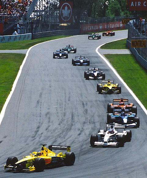 The first lap of the 2001 Canadian Grand Prix. Jarno Trulli (Jordan) leads Olivier Panis (BAR), Kimi Räikkönen (Sauber), Jos Verstappen (Arrows), Ricardo Zonta (Jordan), Mika Häkkinen (McLaren), Juan Pablo Montoya (Williams), Nick Heidfeld (Sauber), Eddie Irvine (Jaguar}), Pedro de la Rosa (Jaguar) and Enrique Bernoldi (Arrows).